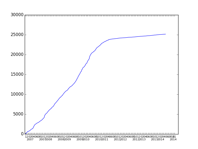 Graph showing the number of Citizendium articles since the launch of the pilot project.